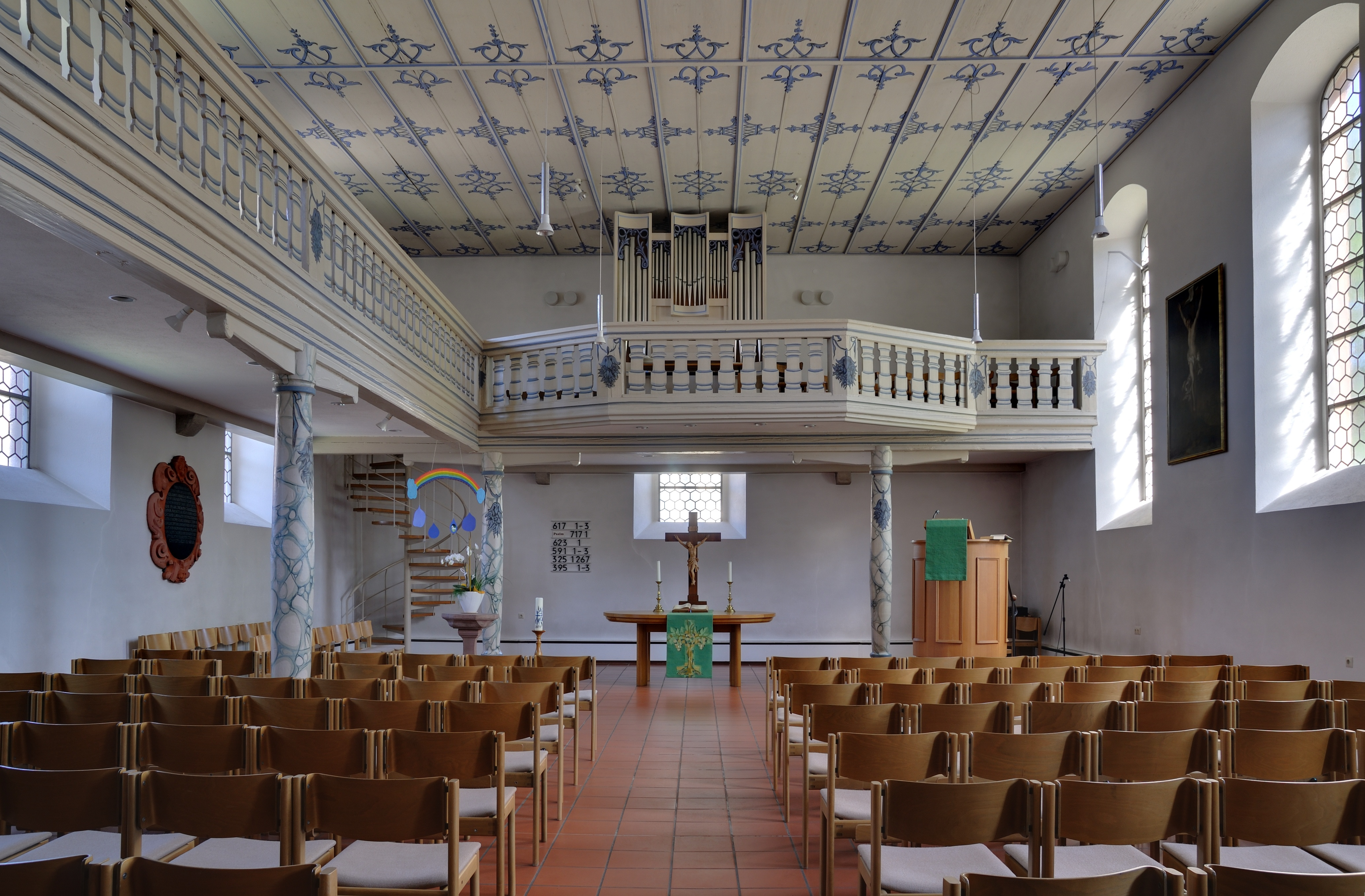 Maulburg: Protestant Church